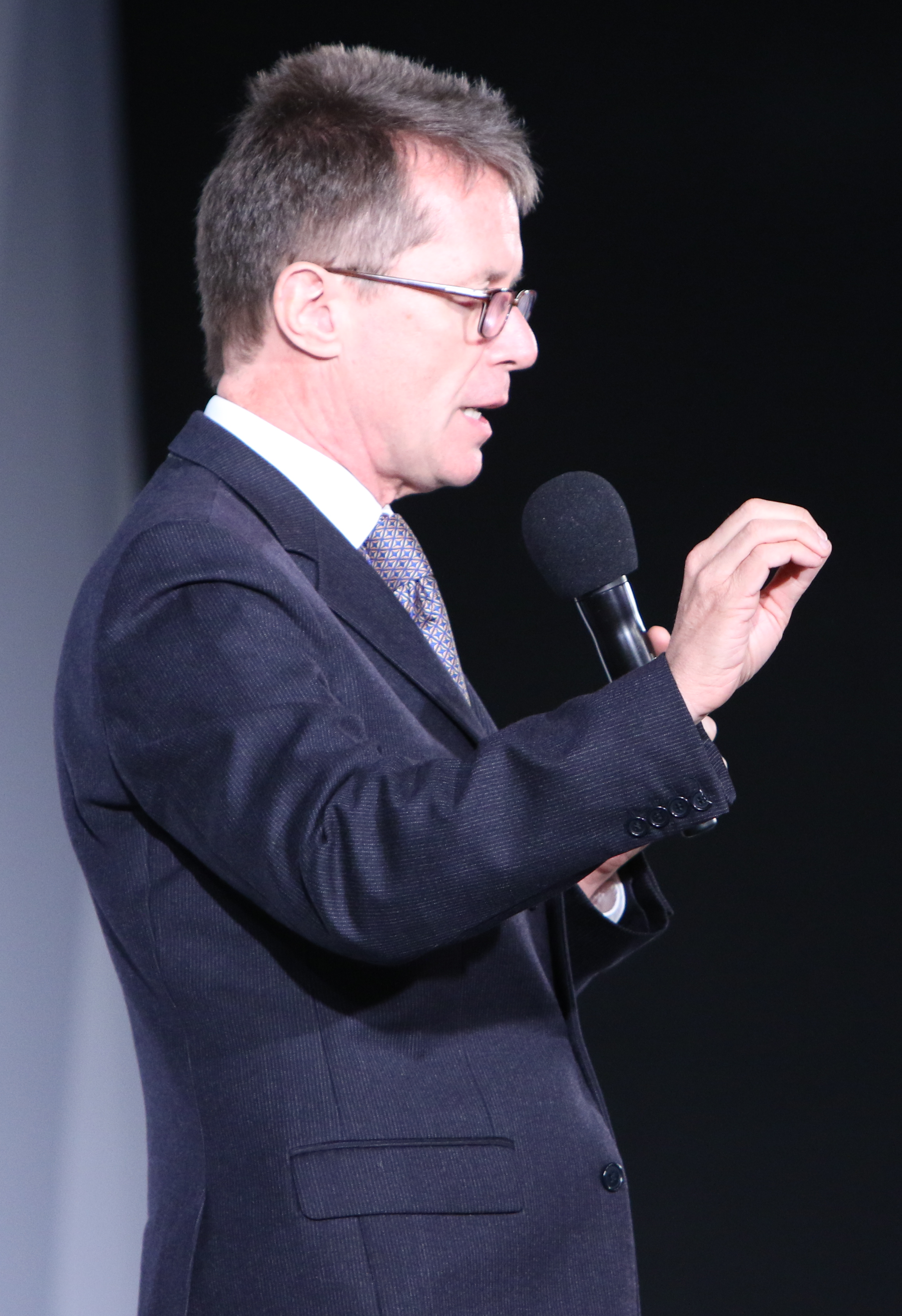 Nicky Campbell OBE, Journalist and Broadcaster with Aidan Gallagher, UN Environment Goodwill Ambassador at the Illegal Wildlife Trade Conference: London 2018, 12 October 2018.